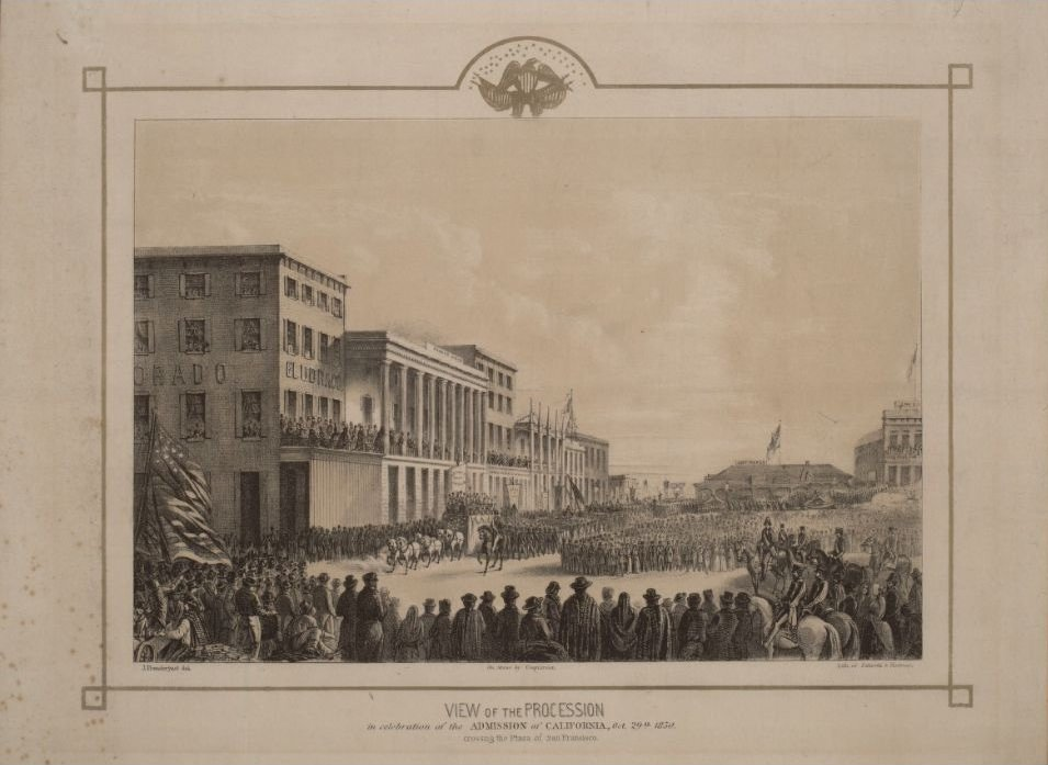 View of the Procession in Celebration of the Admission of California, Oct. 29th, 1850, Crossing the Plaza of San Francisco, lithograph by John Prendergast, published by Zakreski and Hartman, Bancroft Library, University of California, Berkeley